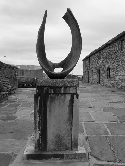 Hepworth at the Pier Barbara Hepworth sculpture outside the Pier Arts Centre in Stromness. Recently refurbished this is one of the finest wee galleries in the world, and well worth a visit if you are ever in Orkney.